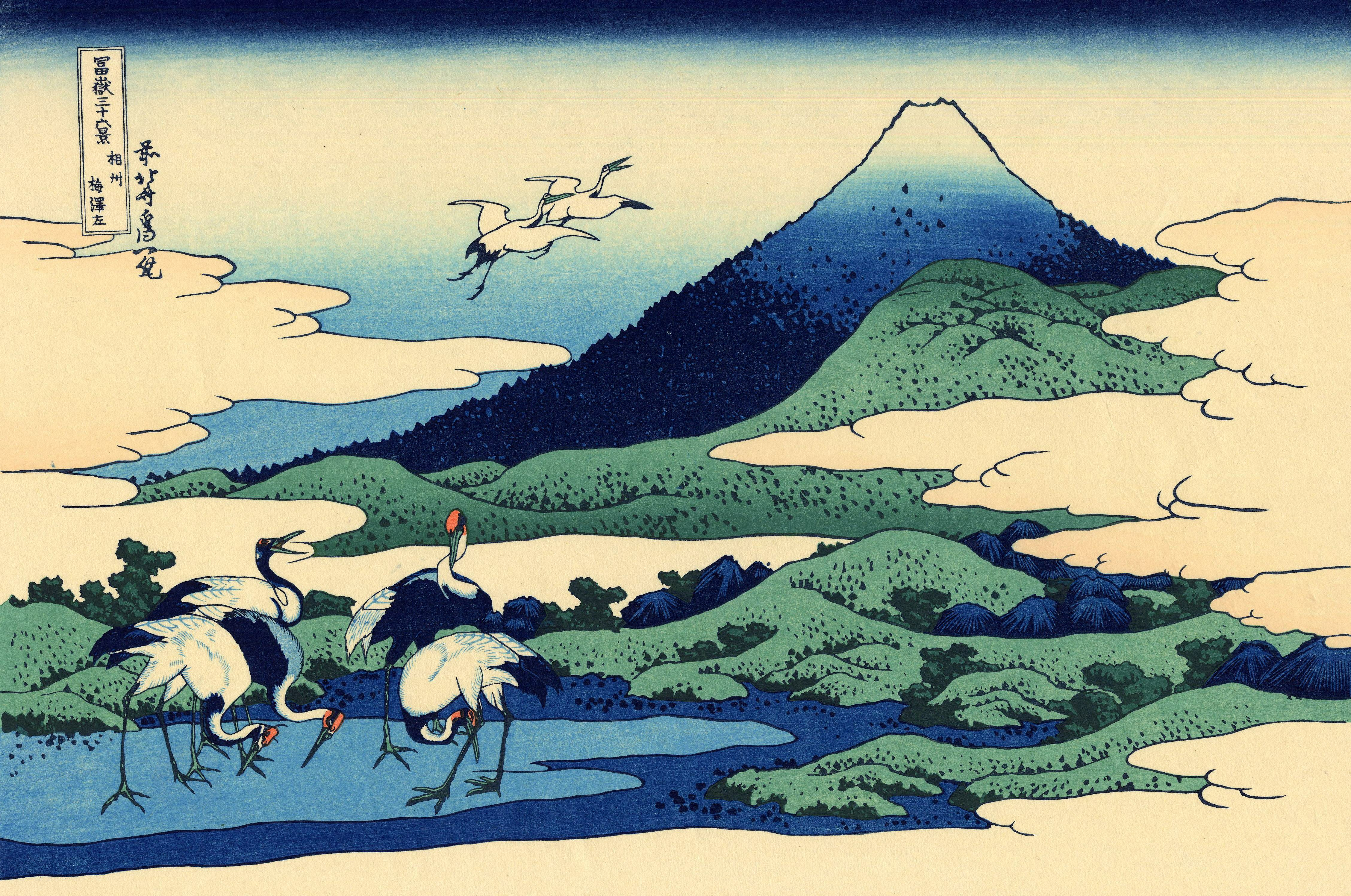 Part of the series Thirty-six Views of Mount Fuji, no. 27.